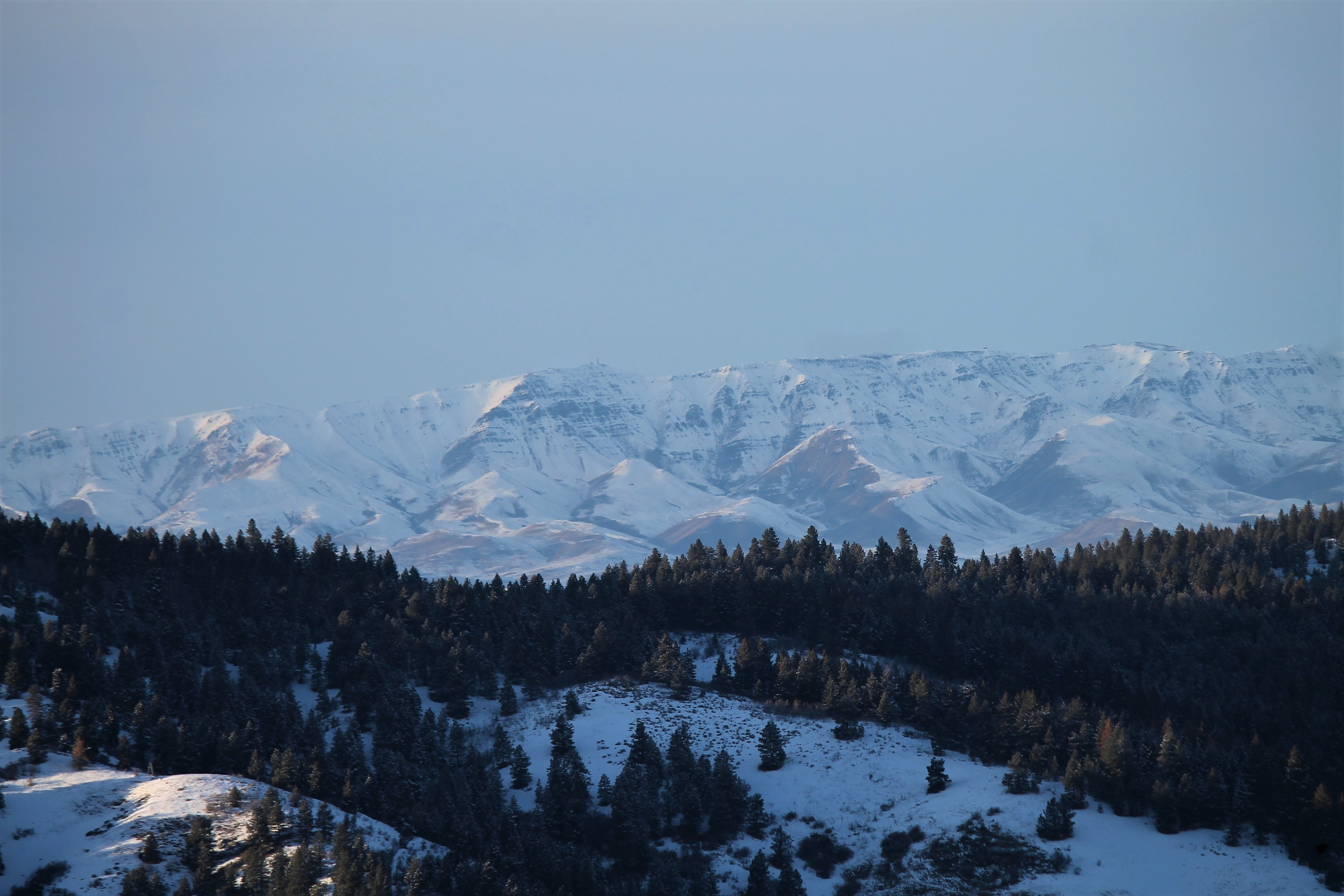 This is Shadow Butte as seen from Bogus Basin road in December, 2018.